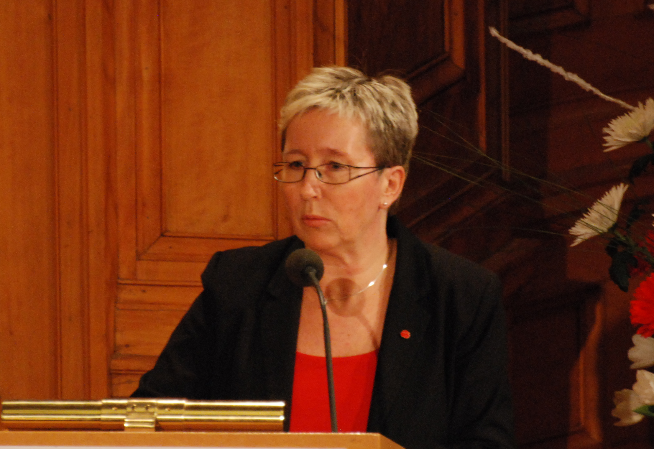 Award Ceremnony of the 30th Right Livelihood Award 2009: Introduction to laureate's speach by Eva-Lena Jansson